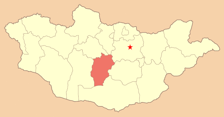 Map of Mongolia with Uvurkhangai Aimag highlighted.